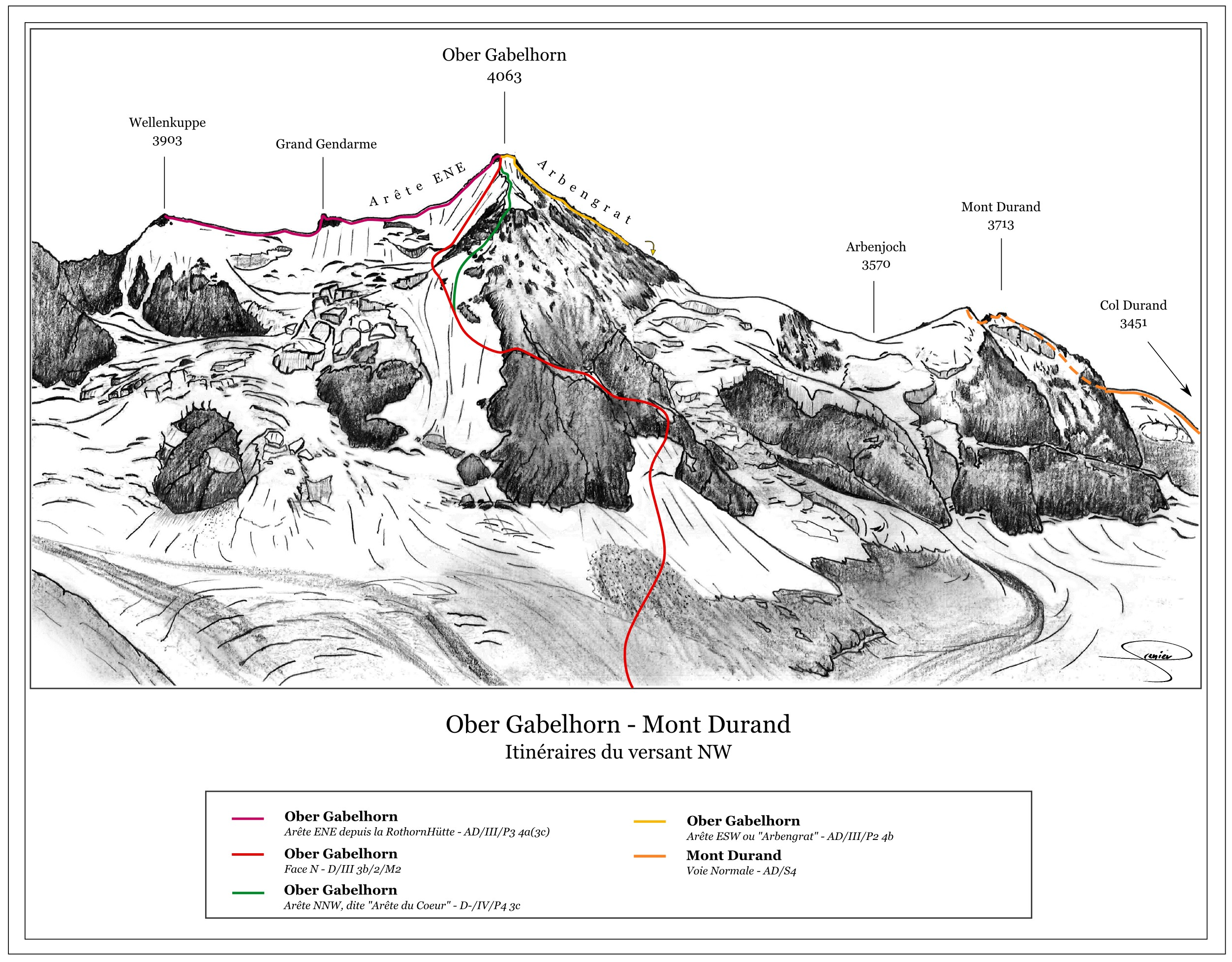 Routes to Obergabelhorn